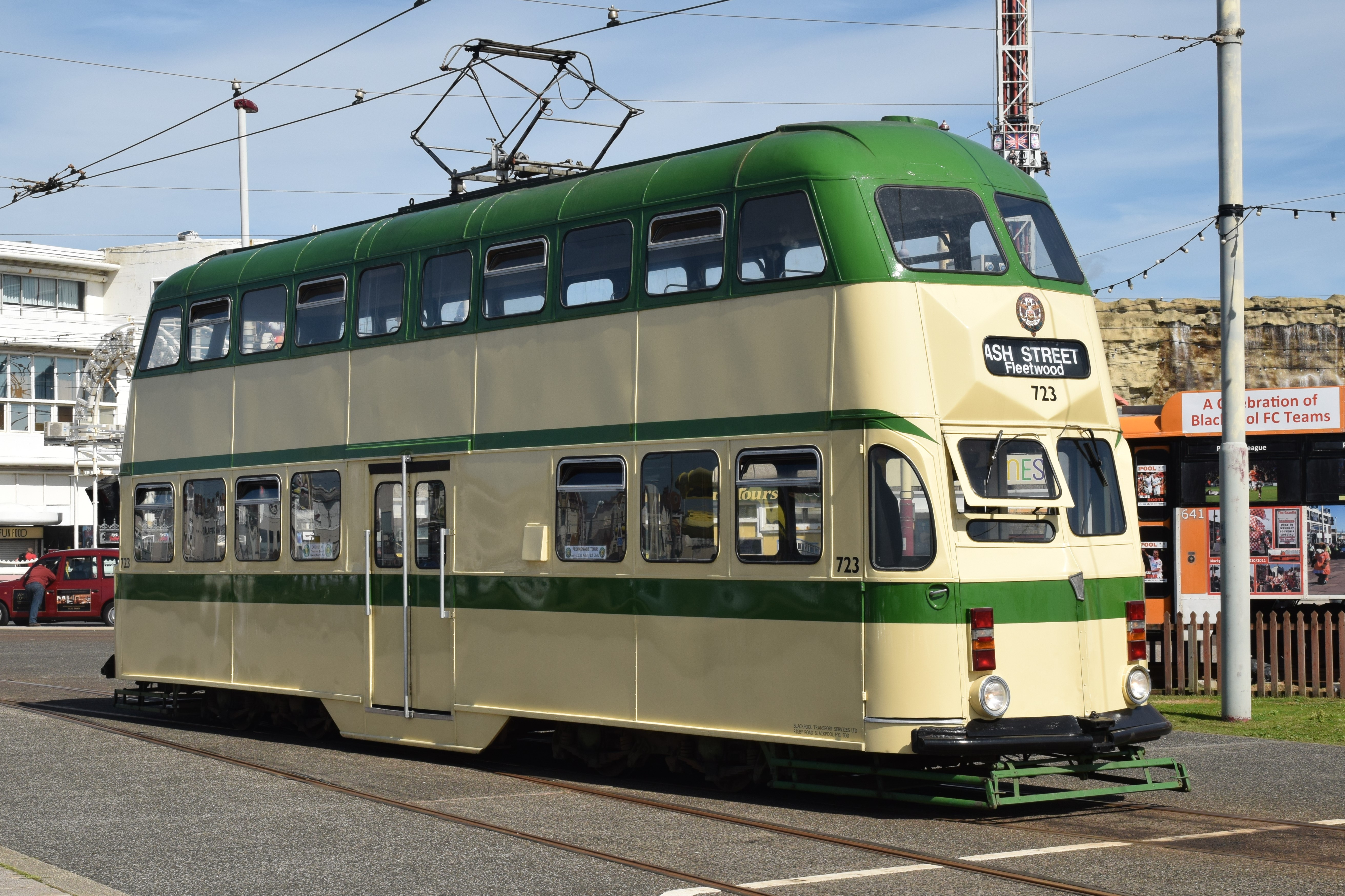 Blackpool Transport. English Electric (Preston) Balloon Car built January 1935, No.260. Renumbered No.723 in 1968. 1980s cream and green livery. Refurbished 1992. Seen at BLACKPOOL, Pleasure Beach, Fishermans Walk, 16th July 2017 (Tram Sunday), operating a heritage service between Fleetwood and Blackpool Pleasure Beach. 170716.154256.